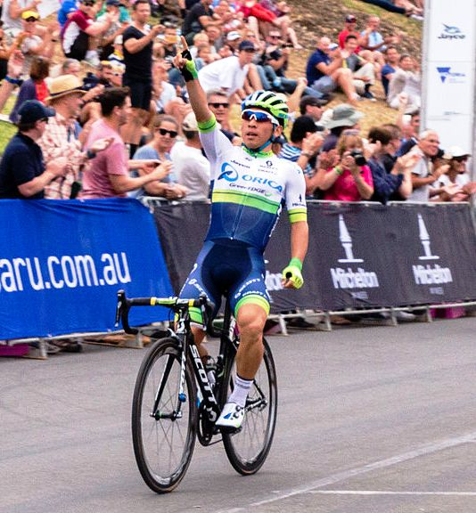 2016 Bay Crits